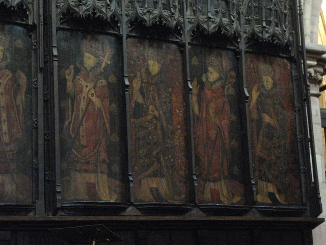 The seven canonised Saxon bishops of Hexham (part 2), former reredos, Hexham Abbey. The four bishops in this image are (from the left): John of Beverley, Acca (see 646915), Frithbert and Cuthbert. See 732190 for a general view of the reredos. See 748673 for a view of the other three paintings.